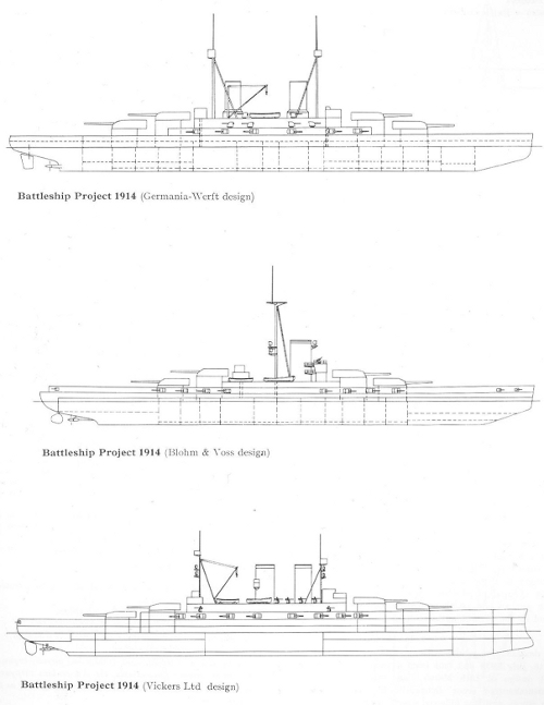 Three of the designs put forth for the Dutch 1913 battleship proposal